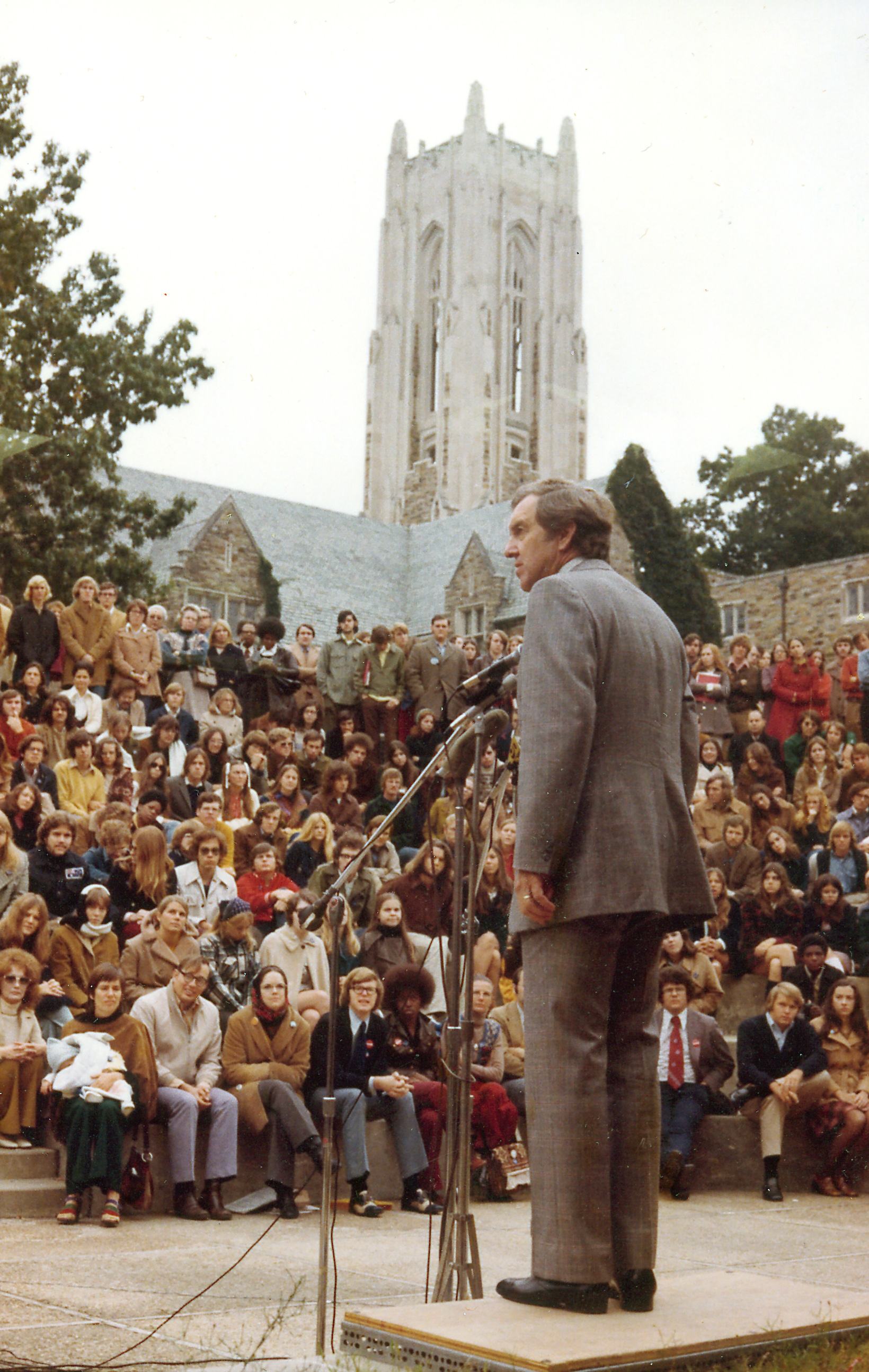 US Senator Edmund Muskie, speaking in the Frazier-Jelke Amphitheatre, Southwest at Memphis (Rhodes College) in 1973.